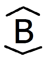 This cattle brand was used at Rancho Sierra Vista in the 1930s and 1940s.